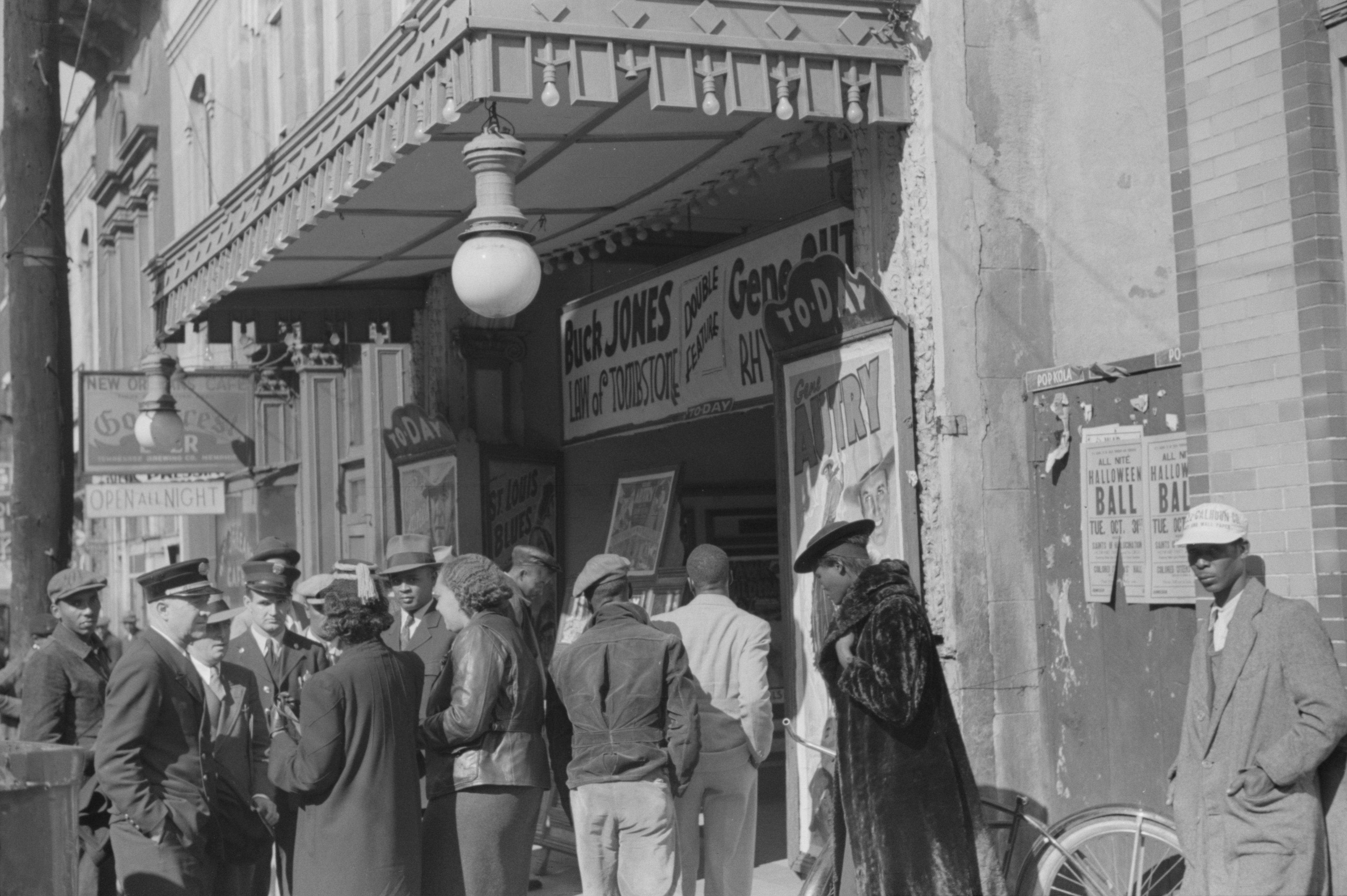 Digital ID: 1260215. Entrance to a movie house, Beale Street, Memphis, Tennessee, October 1939.. Wolcott, Marion Post -- Photographer. October 1939. One of the films being shown is Law for Tombstone (1937). Notes: Original negative #: 30638-M2 Source: Farm Security Administration Collection. / Tennessee. / Marion Post Wolcott. (more info) Repository: The New York Public Library. Schomburg Center for Research in Black Culture. Photographs and Prints Division. See more information about this image and others at NYPL Digital Gallery. Persistent URL: Rights Info: No known copyright restrictions; may be subject to third party rights (for more information, click here).